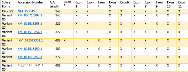 Revised Exon Table